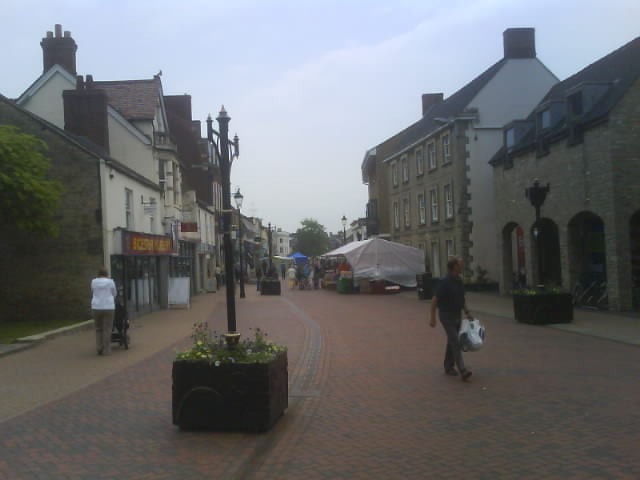 Sheep Street, Bicester, Oxfordshire